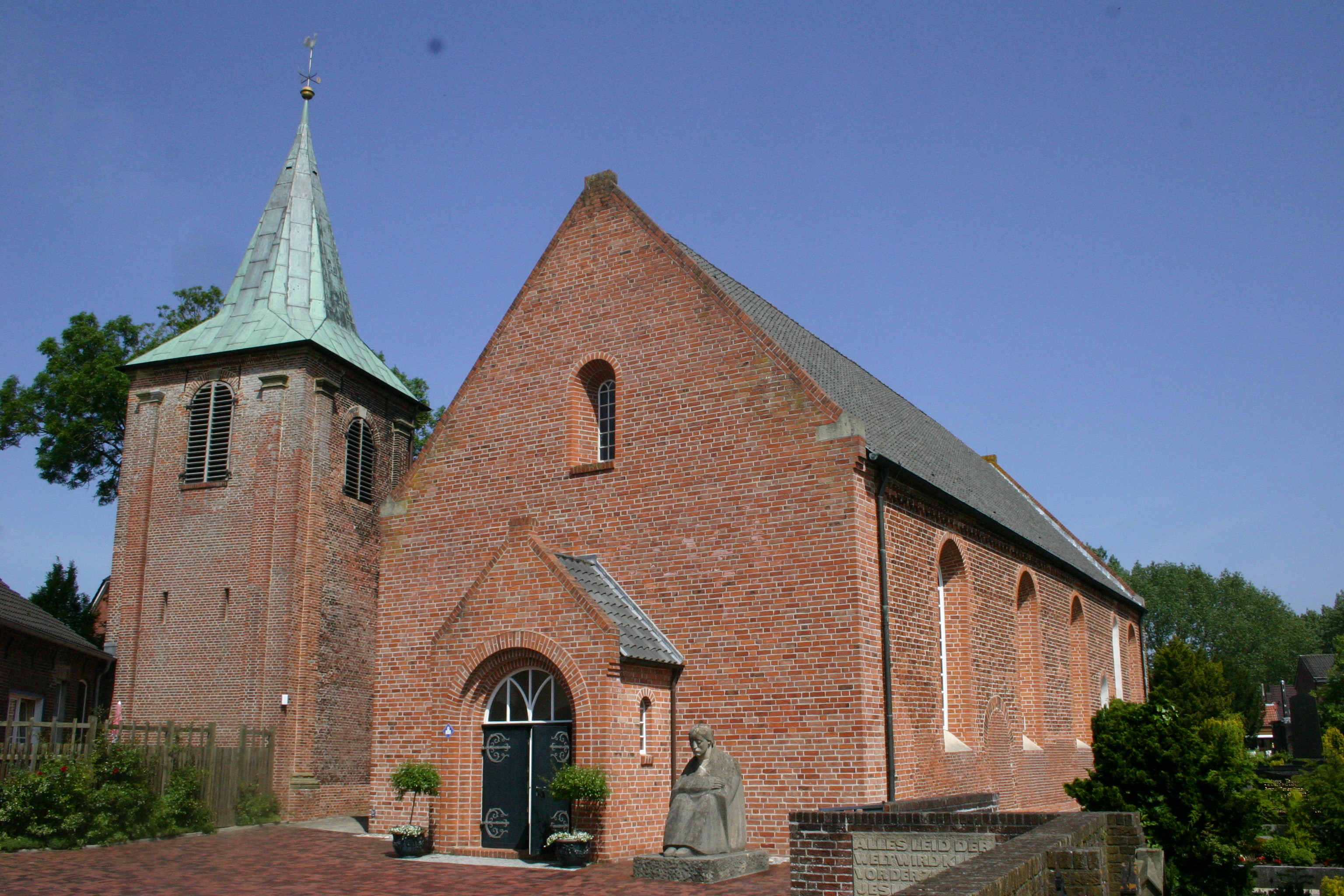 Historic church in Bingum, district of Leer, East Frisia, Germany